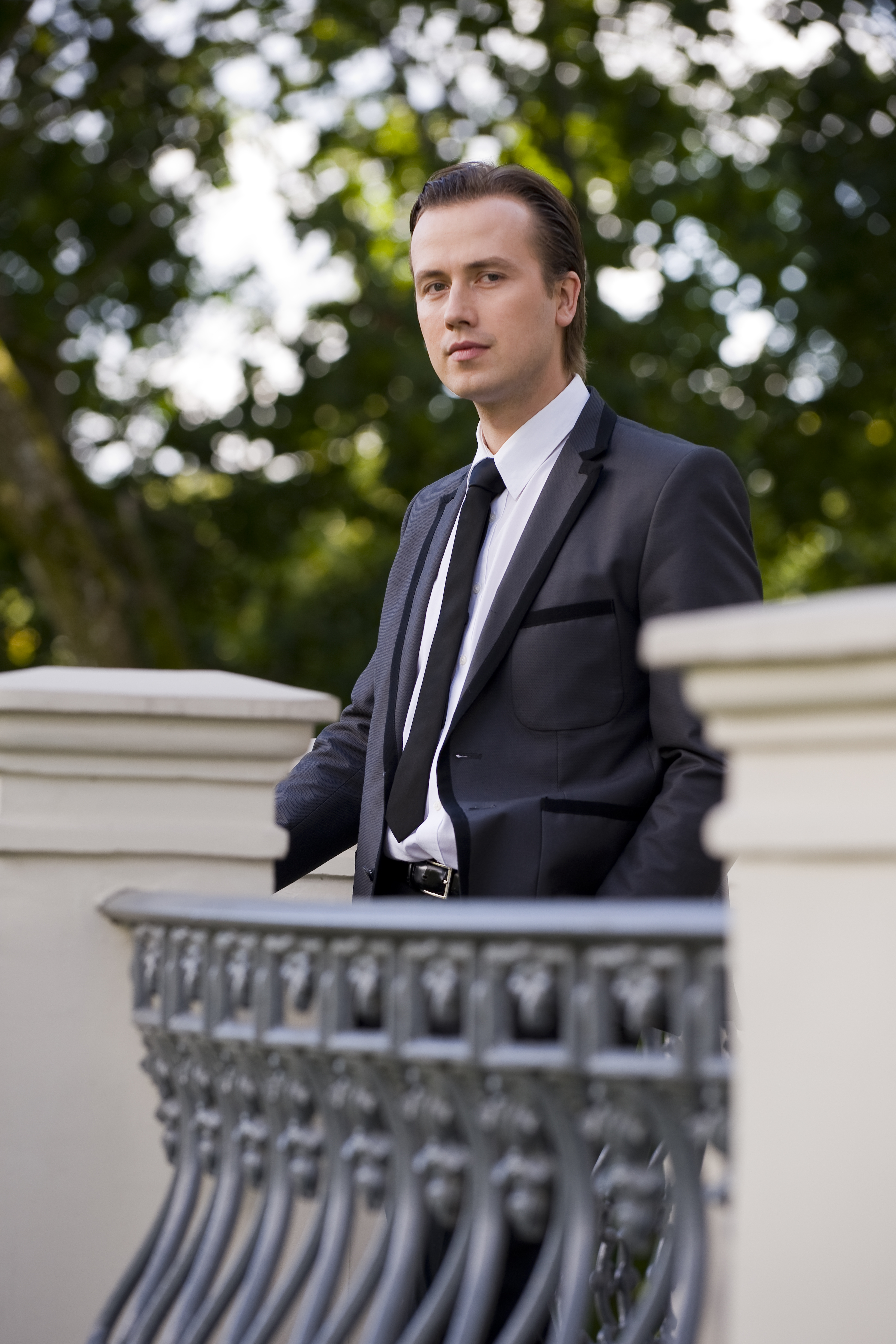 Portrat of Darius Mažintas